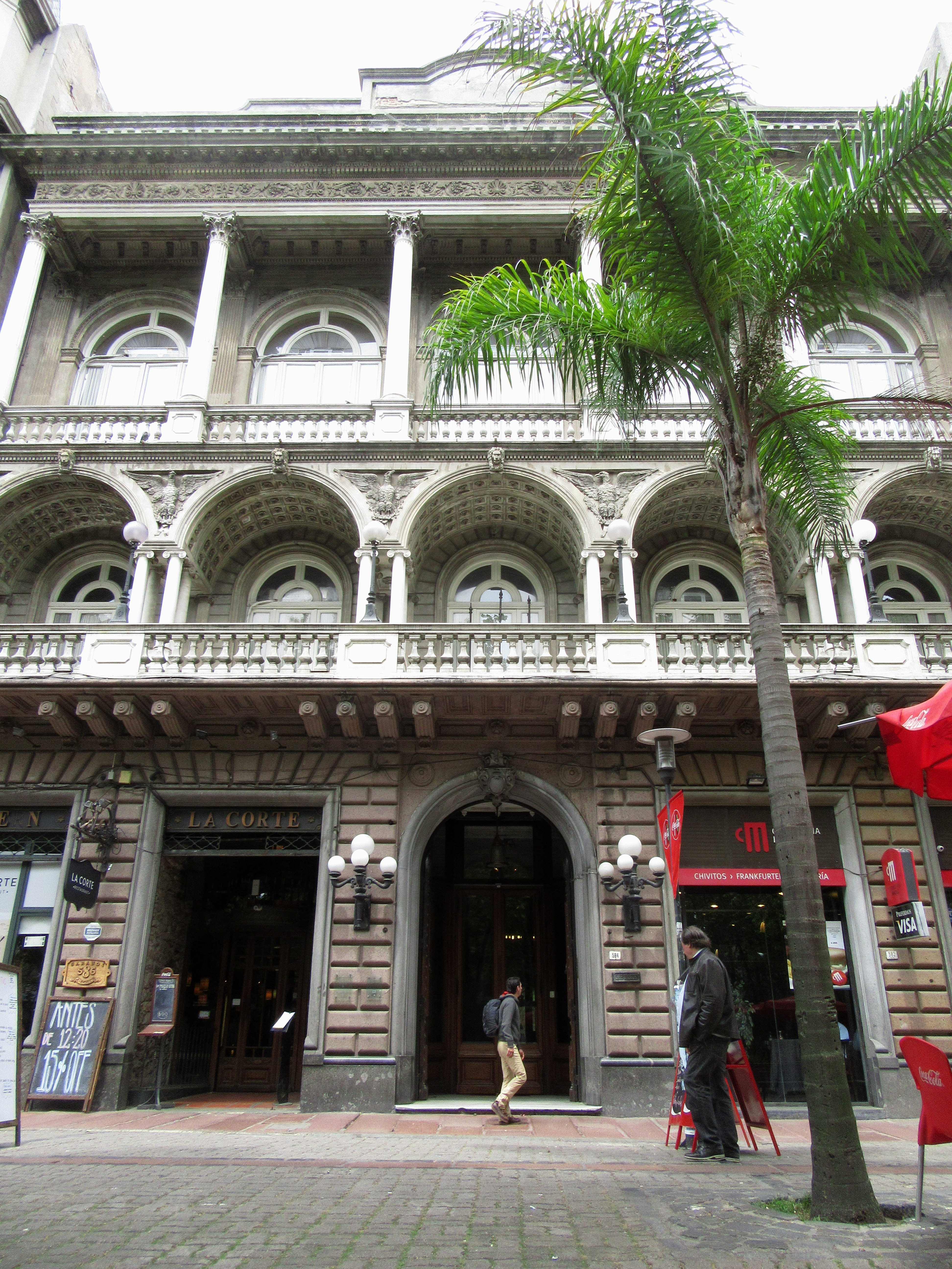 Montevideo